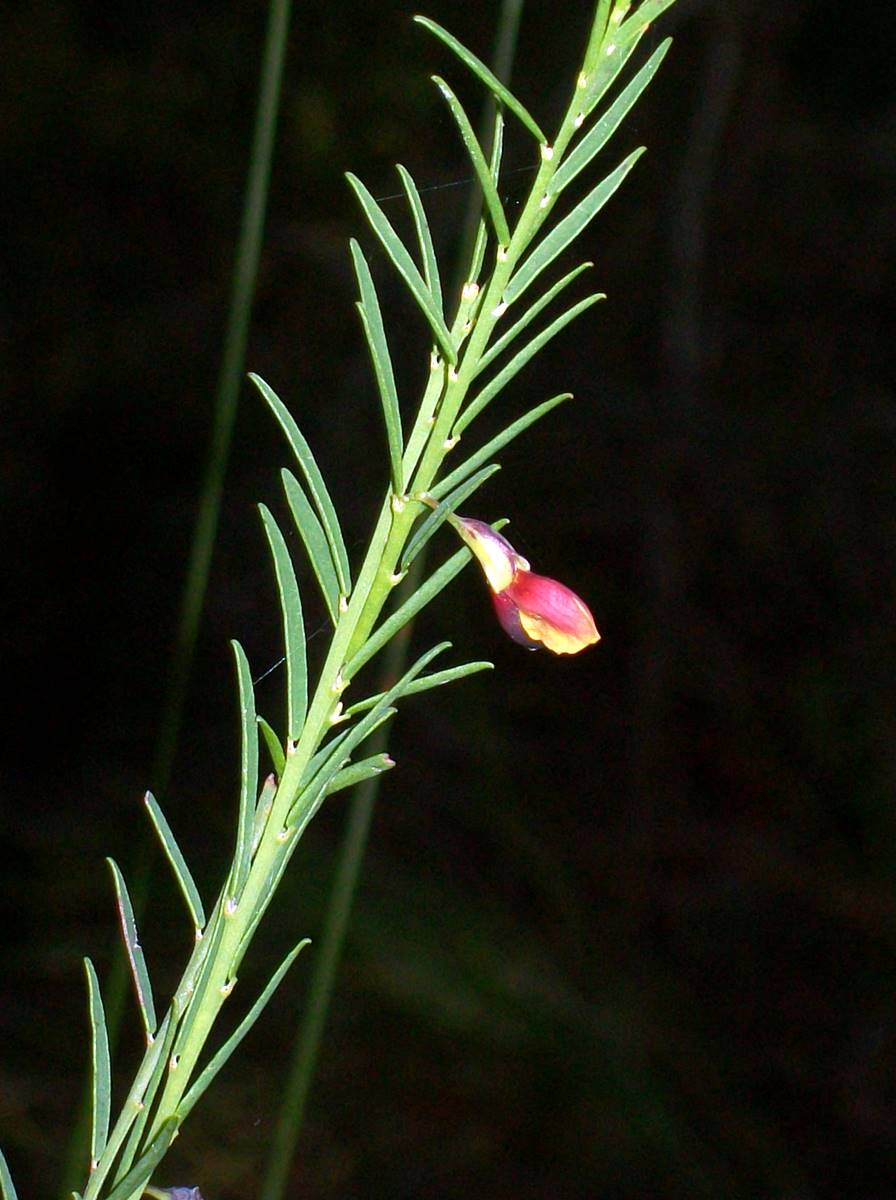 Wildflower, Bairne Track, Ku-ring-gai Chase National Park. Pea family, probably Bossiaea heterophylla